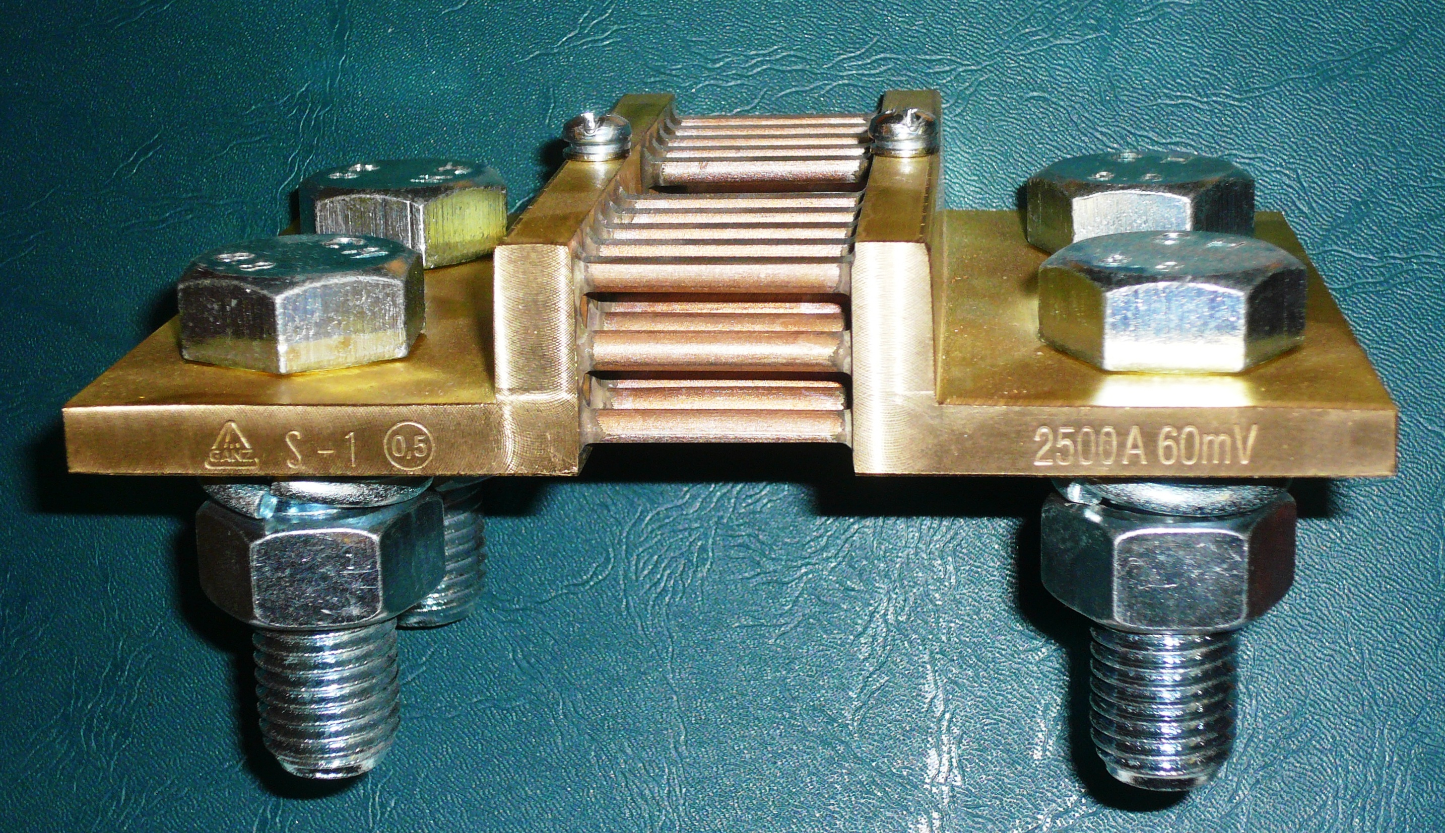 Shunt resistor 2500A 60mV